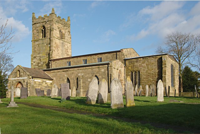 St Wilfrid's Church, Barrow upon Trent Parts of this fine church date back to the 13th century.